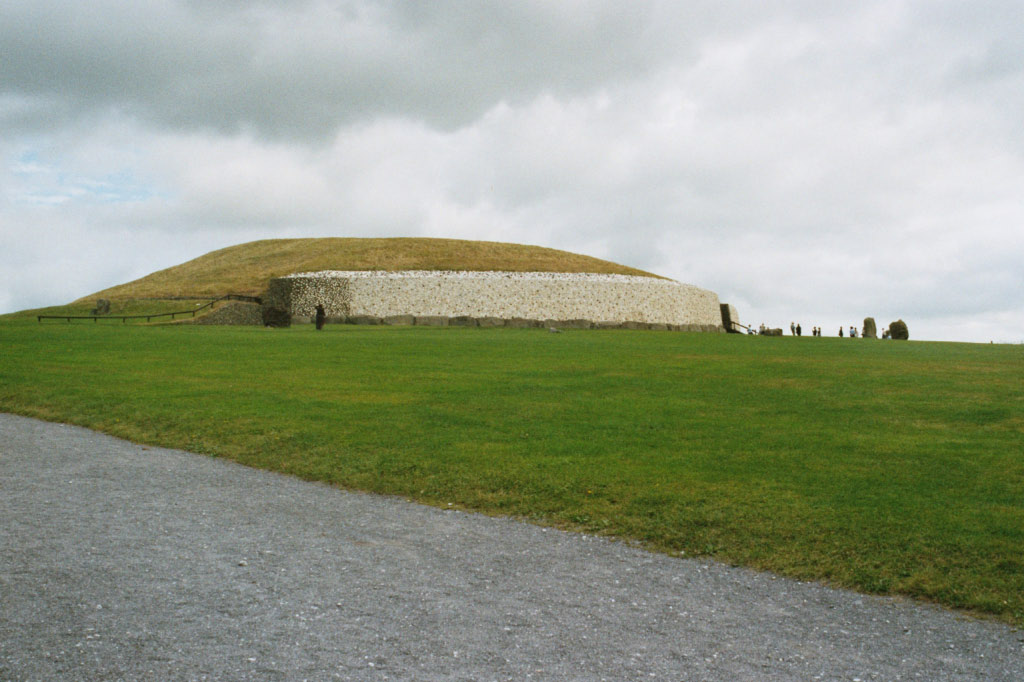 Newgrange